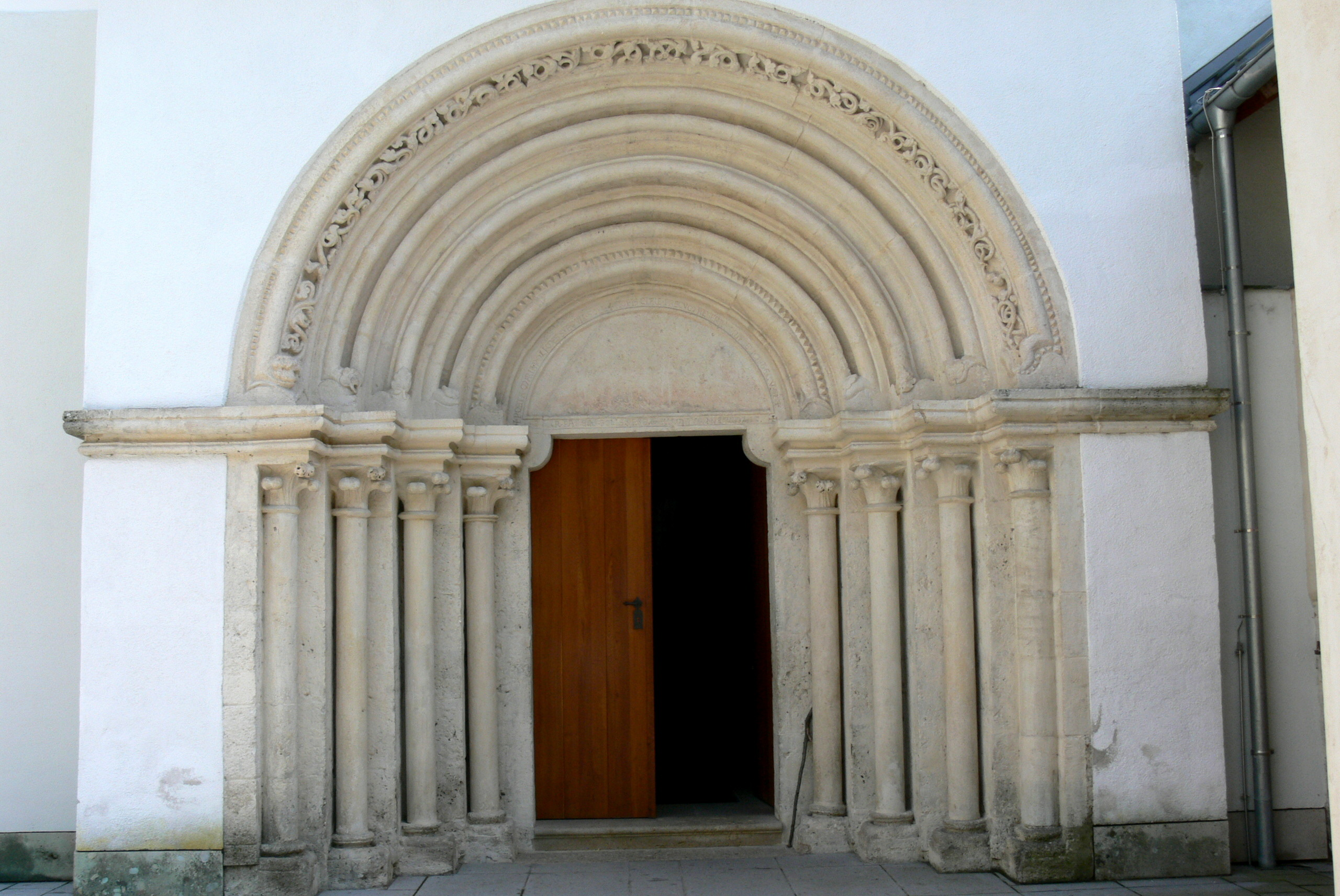 Basilica of Kleinmariazell ( Lower Austria ). Romanesque main portal ( 13th century ).